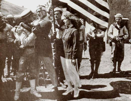 Still from the American adventure comedy film The Kid Is Clever (1918) with George Walsh and Doris Pawn, on page 36 of the April 13, 1918 Exhibitors Herald.